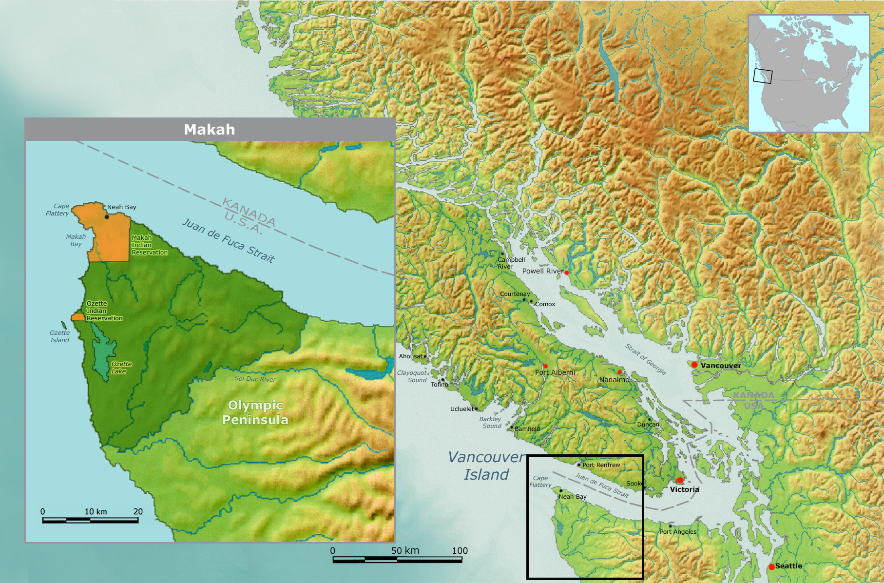 Map of Makah traditional tribal territory and reservations